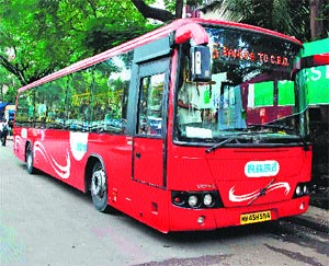 NMMT AC Volvo